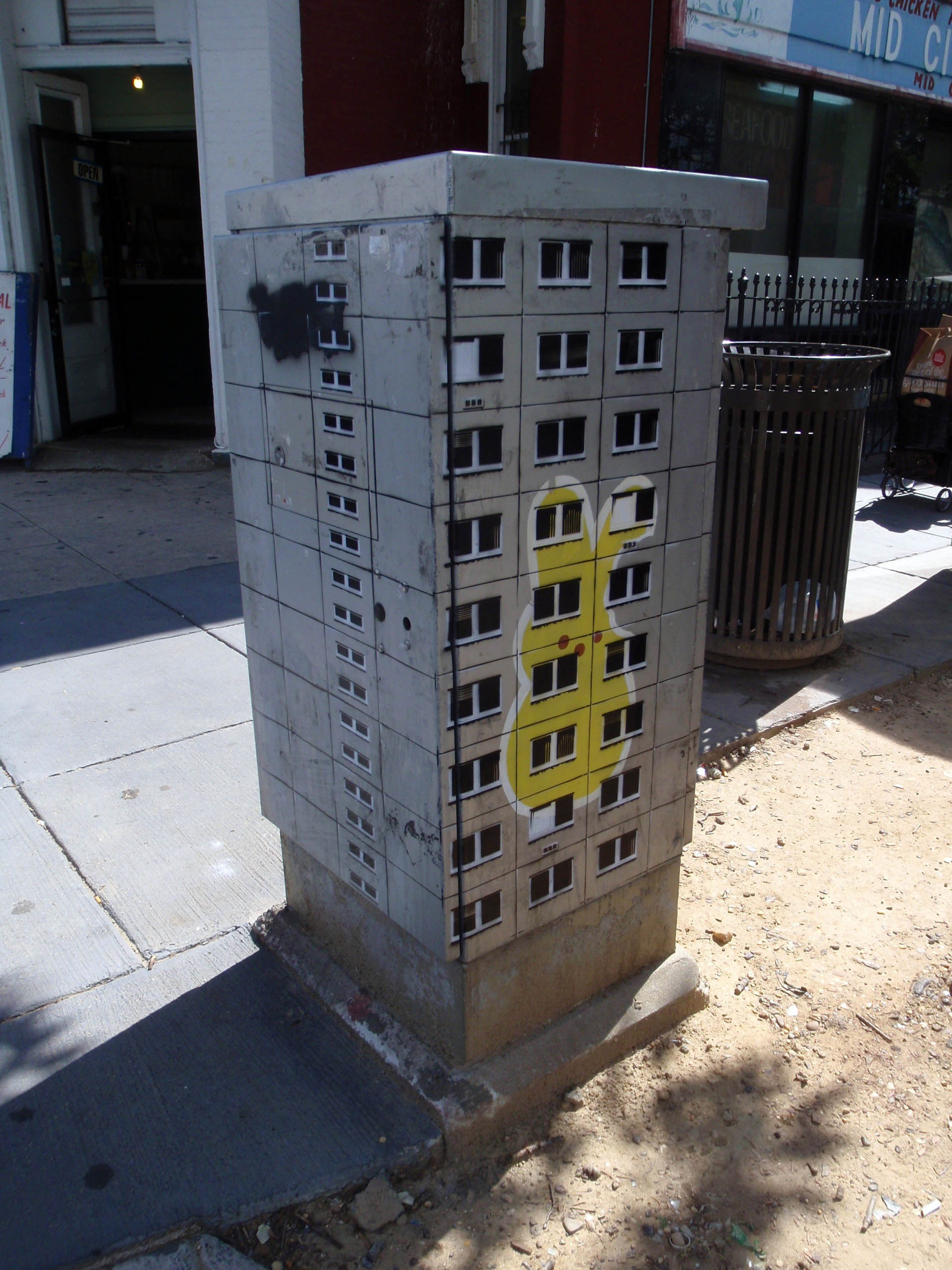 Evol Street art example